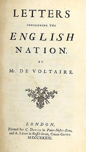 Title page of Lettres anglaises by Voltaire